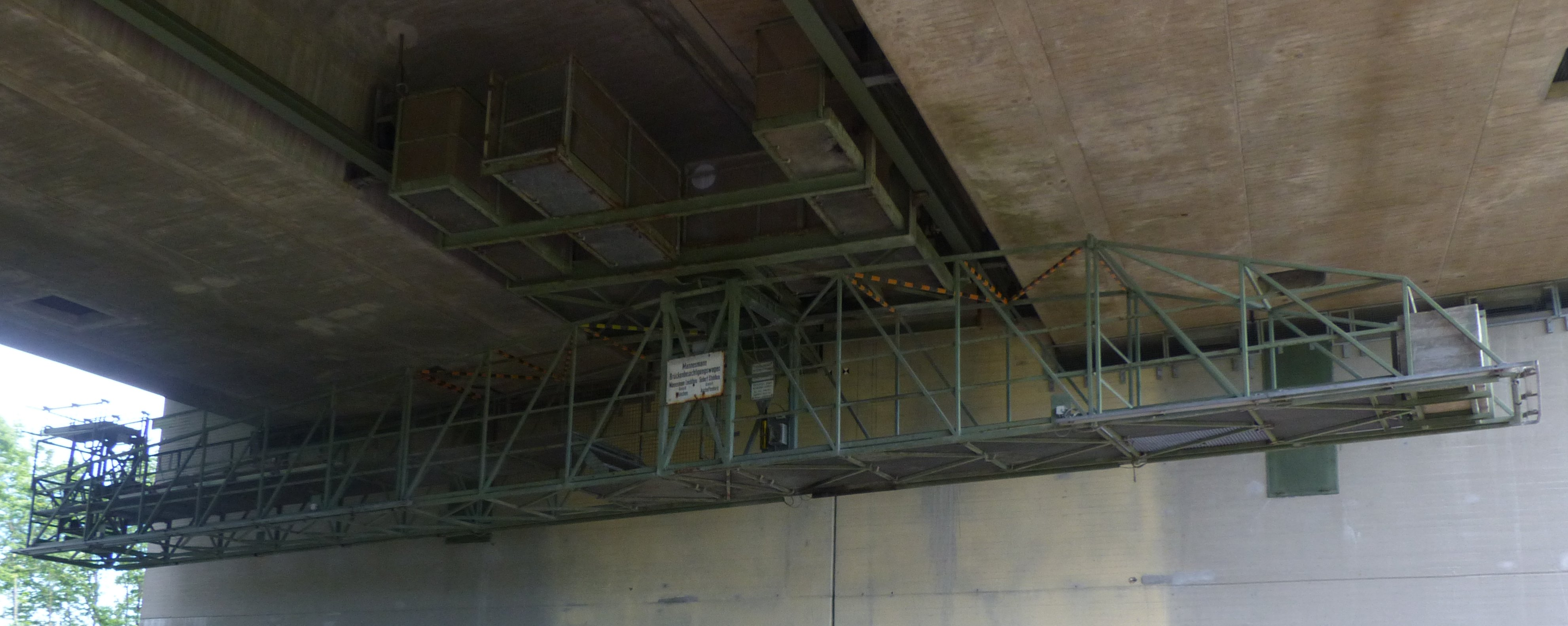 A bridge inspection wagon, near the german village of Pühlheim